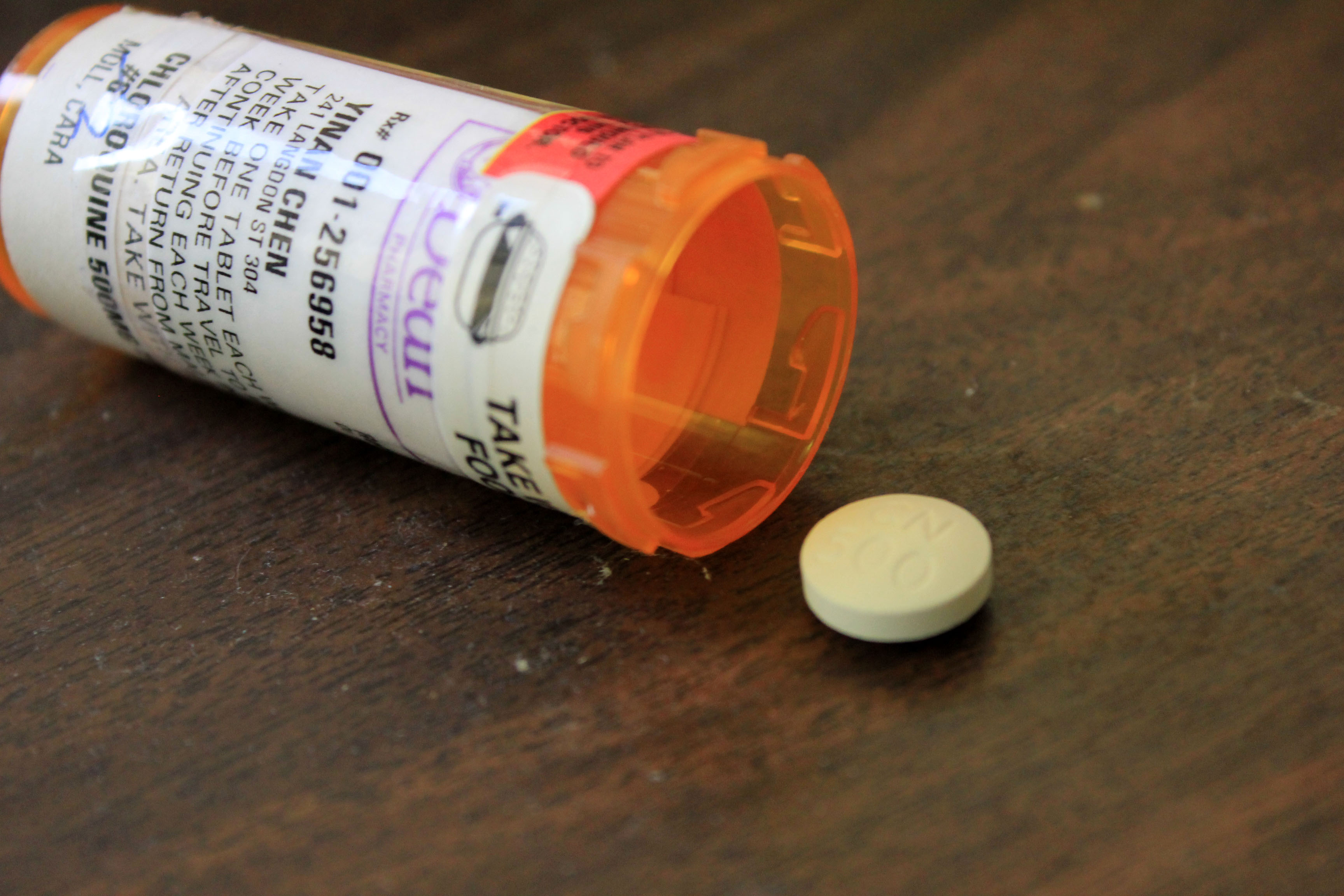 Free public domain stock photo of medicine container and medicine tablet